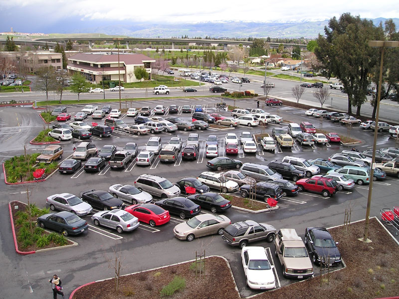 Parking lot San Jose, CA March 3, 2006 (Westfield Shoppingtown Oakridge Mall) Taken by User:Elf